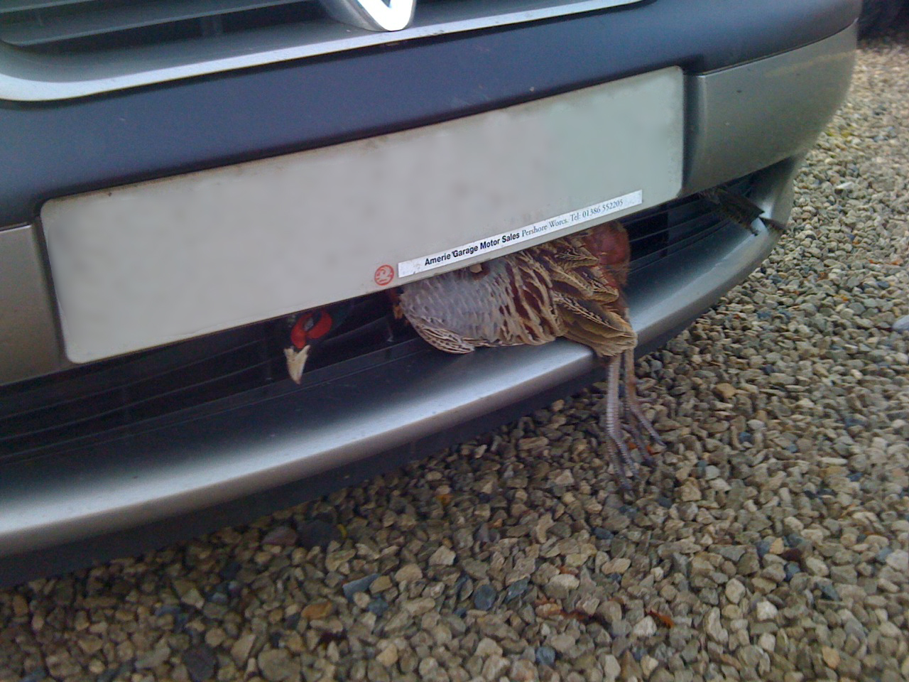 Pheasant lodged in car bumper